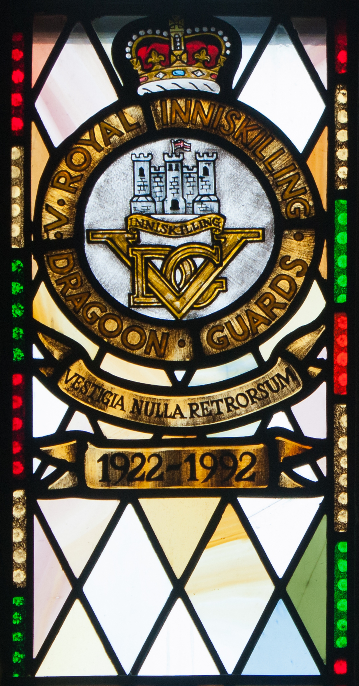 Stained glass window in the north aisle, depicting the insignia of the 5th Royal Inniskilling Dragoon Guards during its history. This is the insignia which was in use from 1922 to 1992. Created by CWS Design in Lisburn, Co. Antrim.